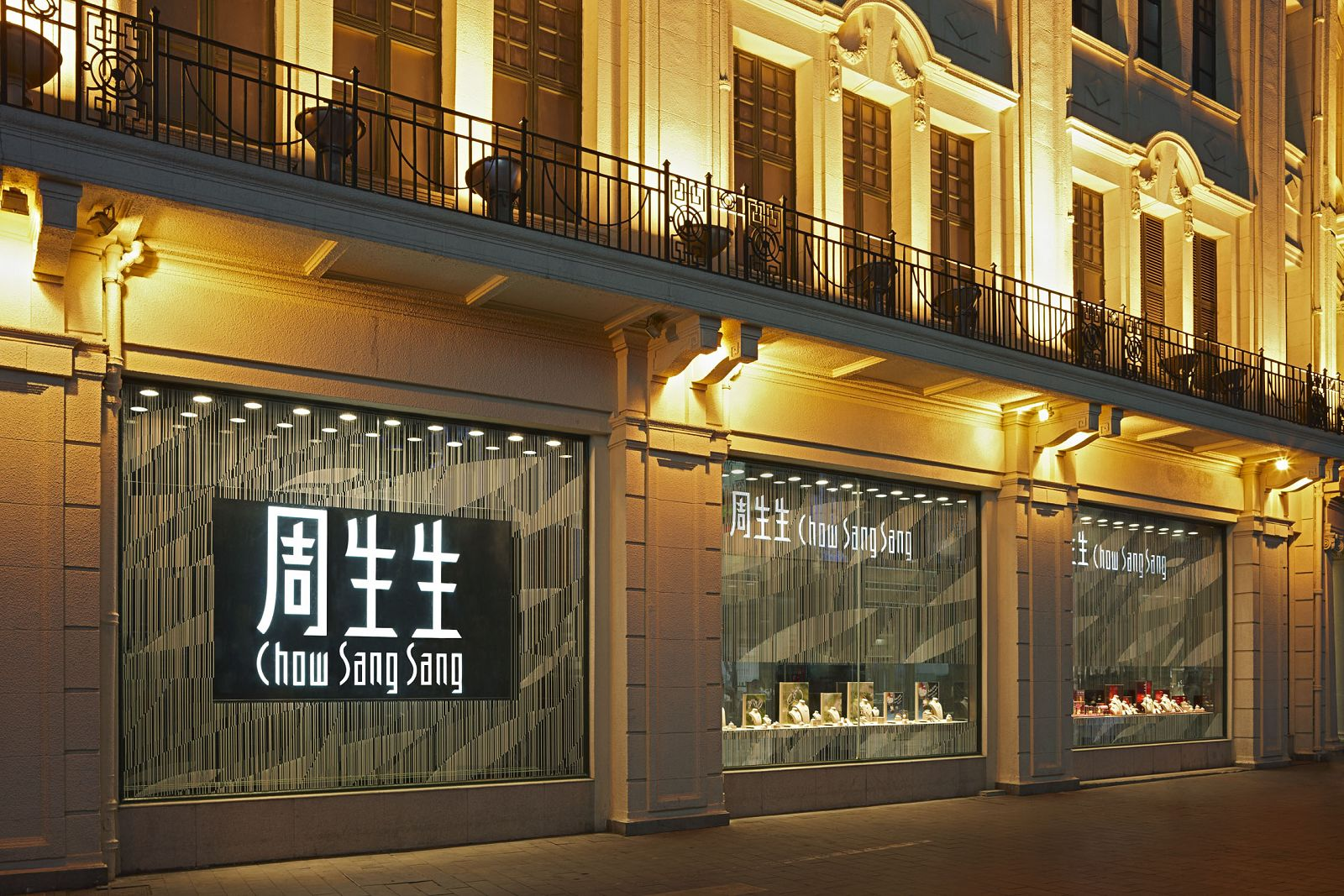 Chow Sang Sang store in Yongan Department Store, Shanghai